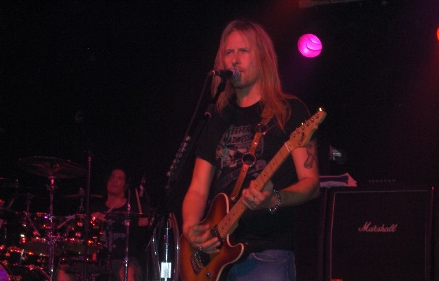 Jerry Cantrell live in 2006